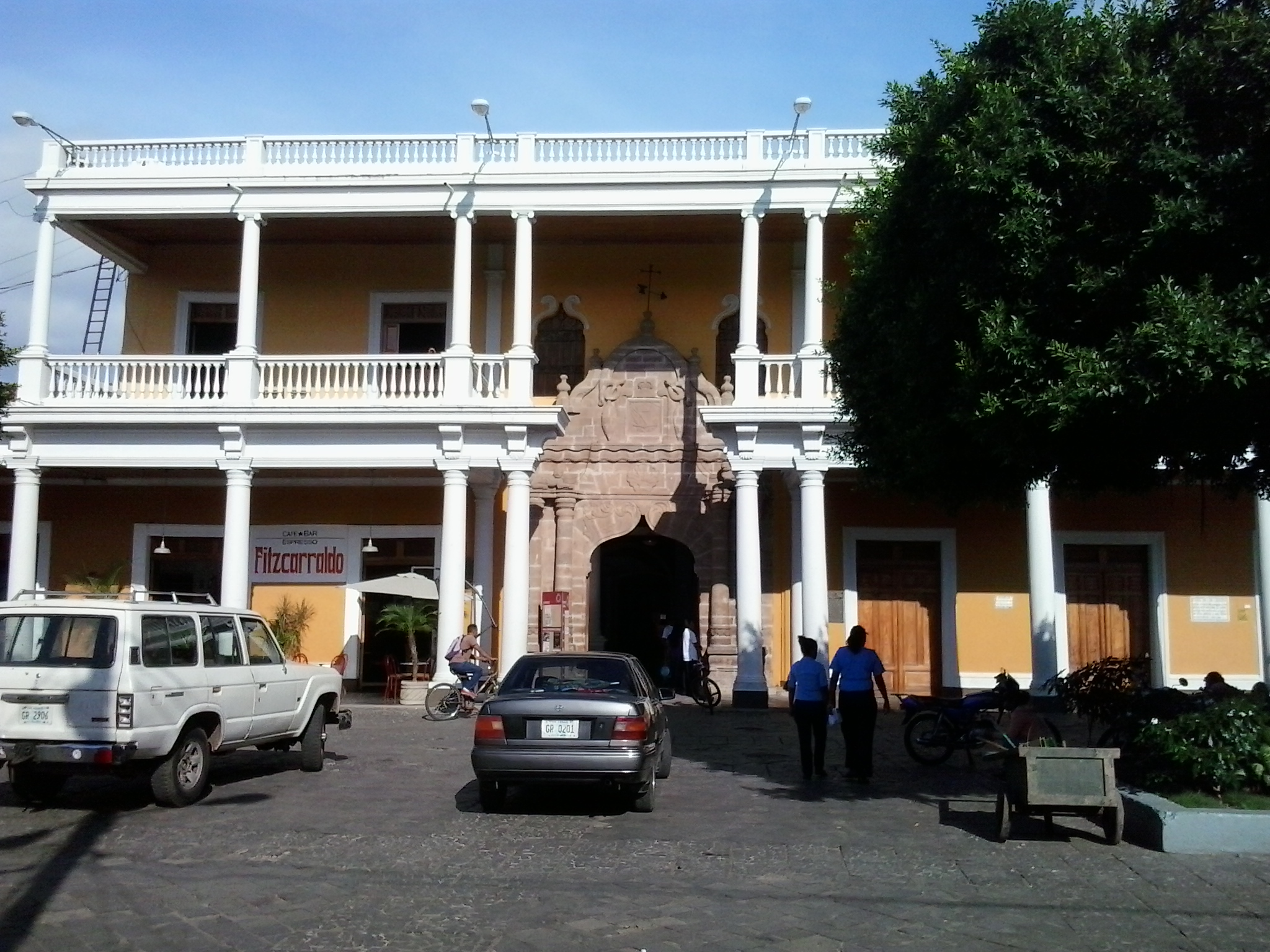 Casa de los tres mundos in Granada, Nicaragua.